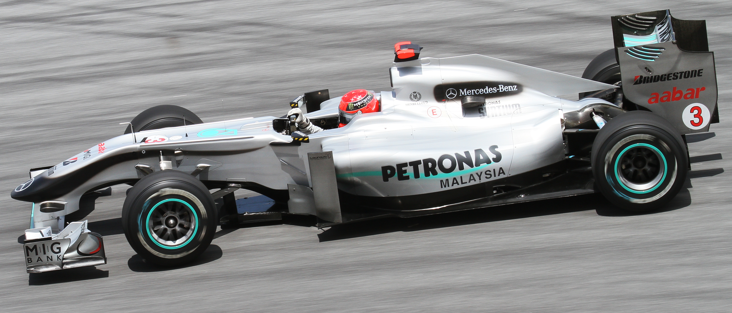 Formula One 2010 Rd.3 Malaysian GP: Michael Schumacher (Mercedes GP) during Friday 2nd Free Practice session.